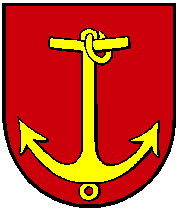 Coat of arms of Lichtenau